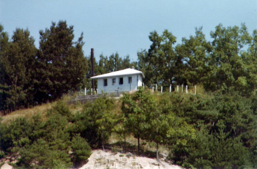 United Nations Command observation post 5 Korea, OP#5 the site that took the pictures of the Axe Murder Incident. (Photo August 1977)